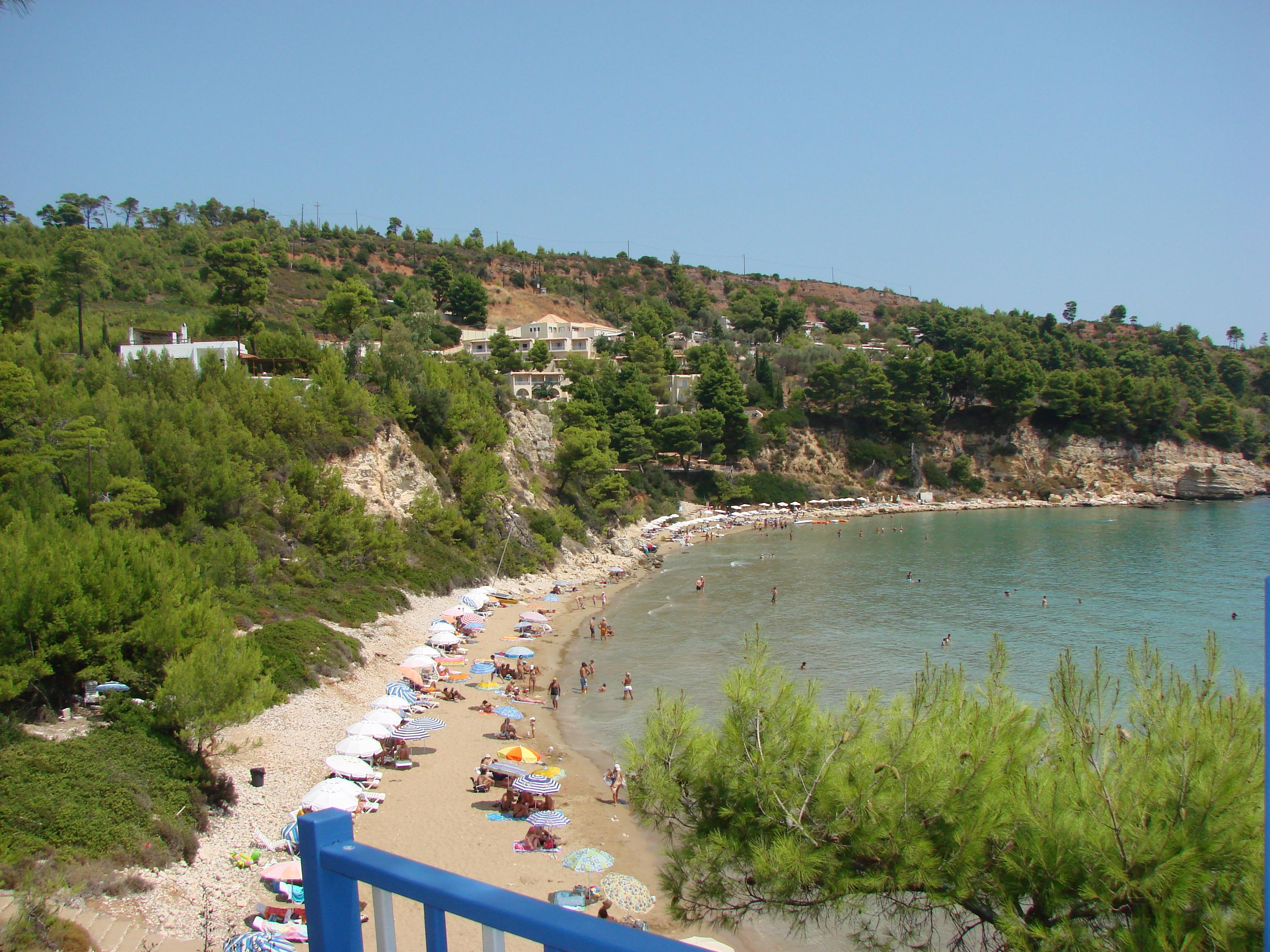 The most popular beach on Alonissos